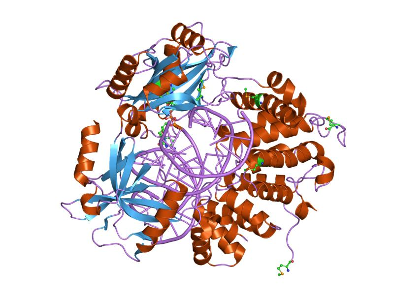 Cartoon representation of the molecular structure of protein registered with 1x9n code.